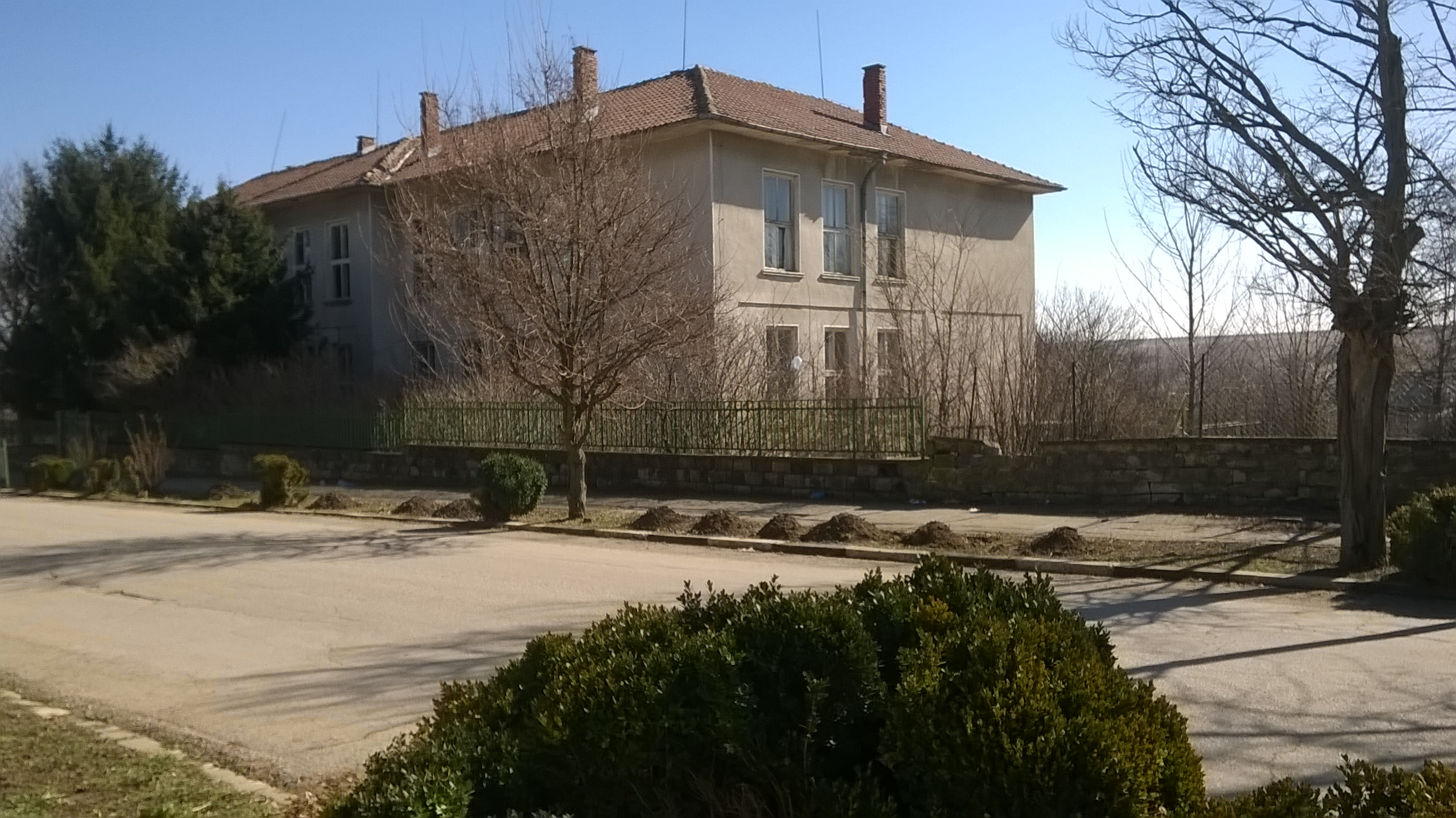 The scholl in the Bulgarian village Polski Senovetz